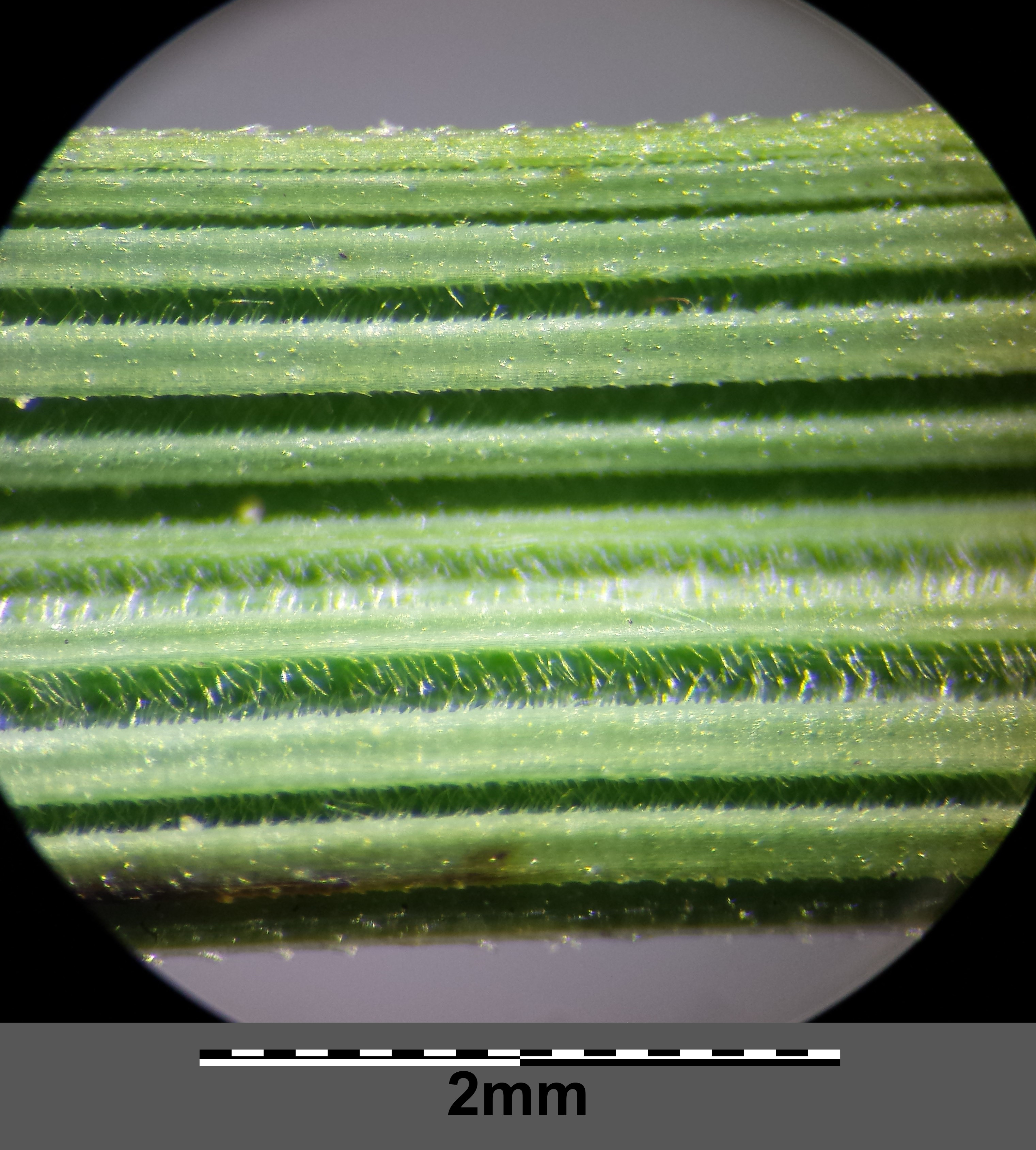 Top side of leaf, ribs densely haired Taxonym: Stipa pulcherrima (subsp. pulcherrima) ss Fischer et al. EfÖLS 2008 ISBN 978-3-85474-187-9 Location: semi-dry grasslands and wine yards to the north of Oberthern, municipality Heldenberg, district Hollabrunn, Lower Austria - ca. 300 m ü. A. Habitat: slope